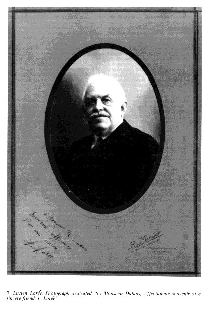 Lucien Lorée, (1867-1945). Photograph dedicated "to Monsieur Dubois, Afectionate souvenir of a sincere friend, L. Lorée "